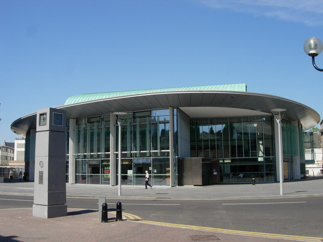 Perth Concert Hall Completed in summer 2005 at a cost of £17m, the new concert hall houses a 1200 seater auditorium with flexible flooring, staging and seating allowing it to host exhibitions, and conferences as well as orchestral and other musical performances.